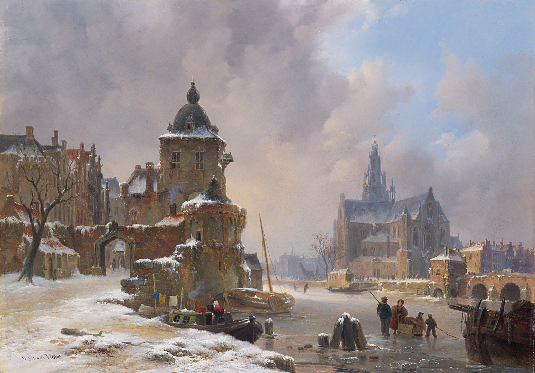 Winter cityscape with frozen river oil on panel 34.2 x 48.5 cm signed b.l.: B J van Hove